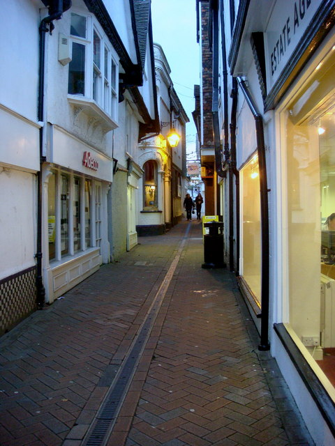 Ashford, Kent Middle Row from east to west...ish